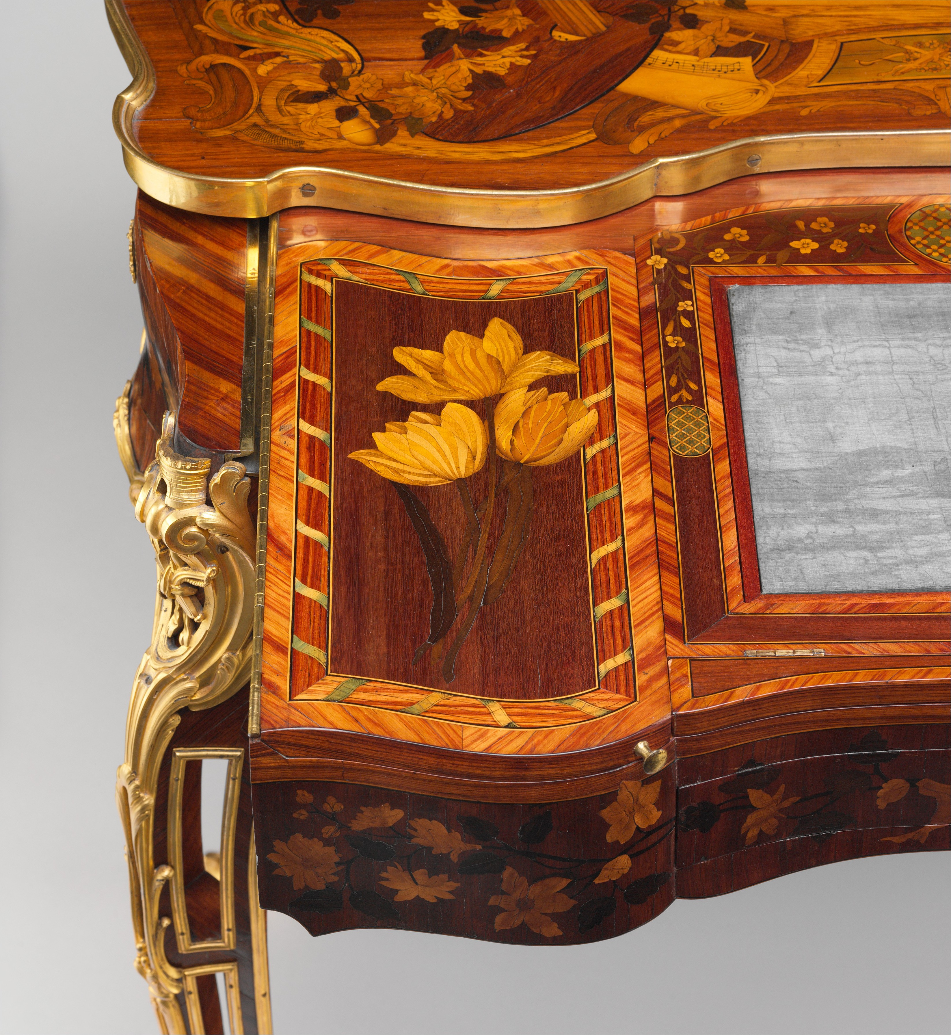 French; Mechanical table; Woodwork-Furniture